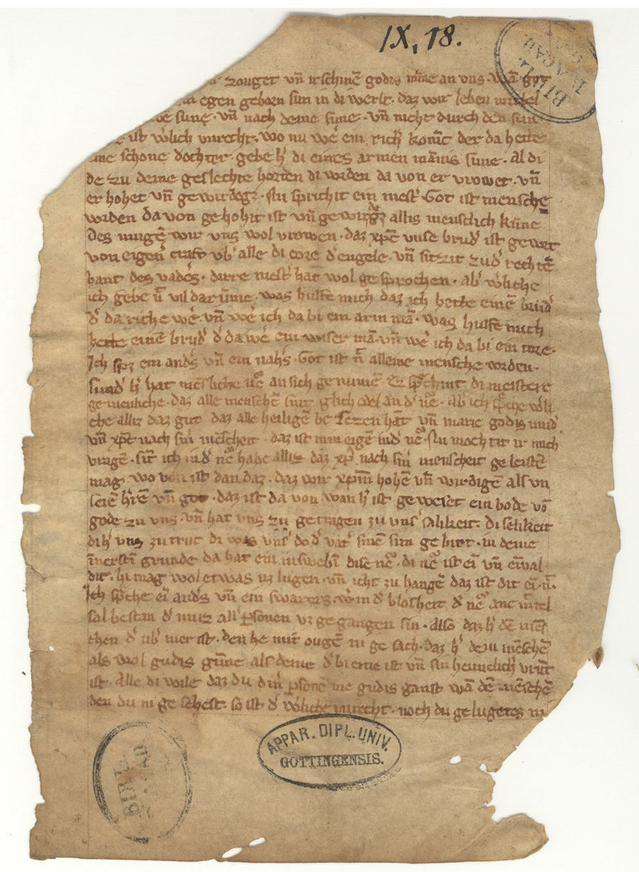 Oldest fragment of sermon 5b of Meister Eckhart being actually one of the oldest Eckhart hand-down (see press release